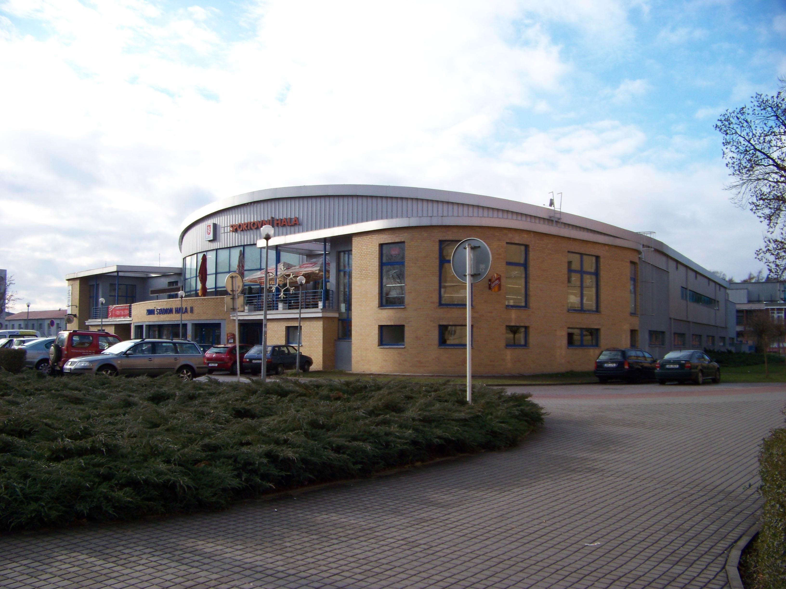 Hradec Králové, Hradec Králové District, Hradec Králové Region, the Czech Republic. Ignáta Hermanna street, the new sports hall.